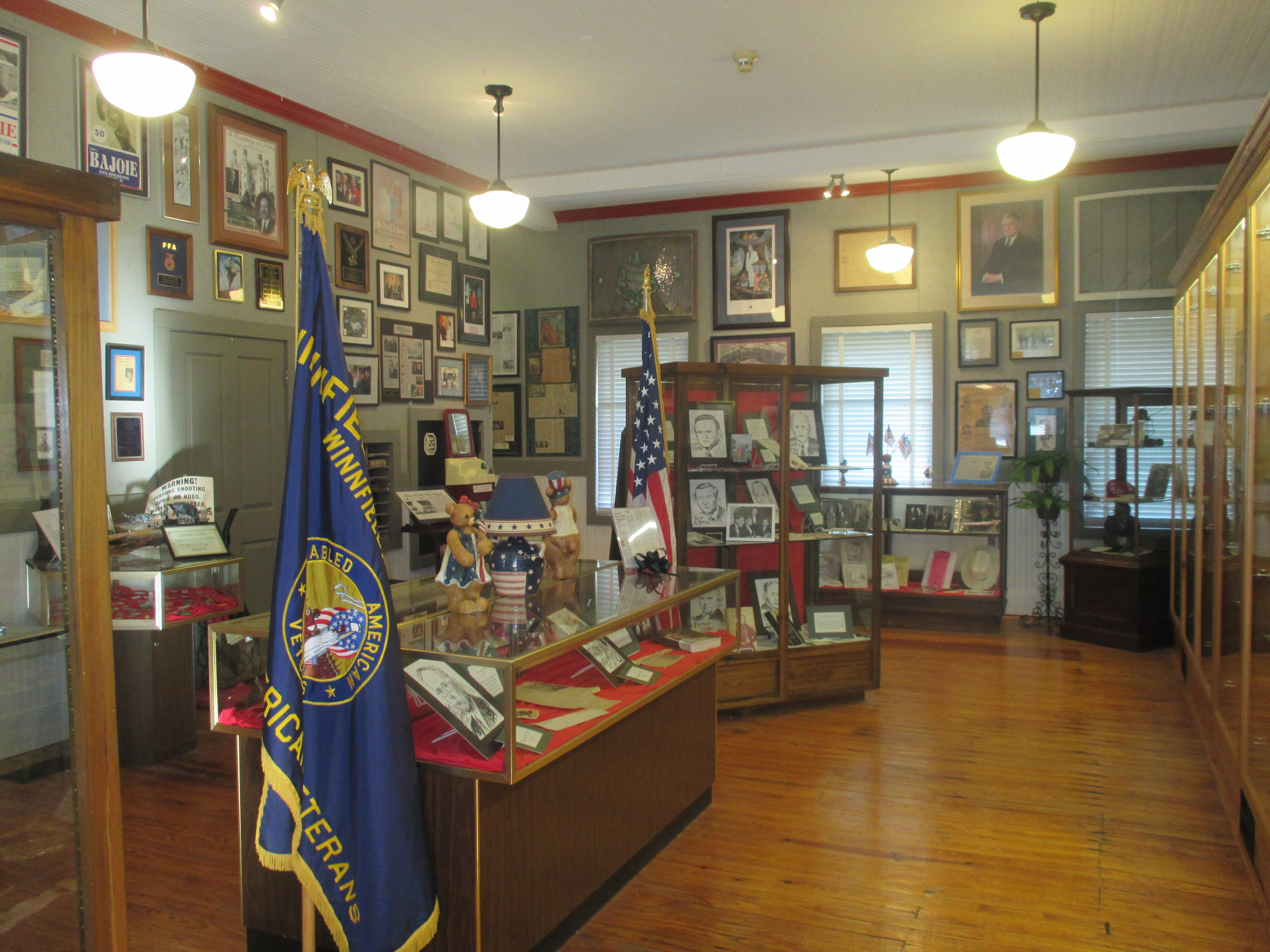 I took photo of inside of the Louisiana Political Museum and Hall of Fame in Winnfield, with Canon camera.